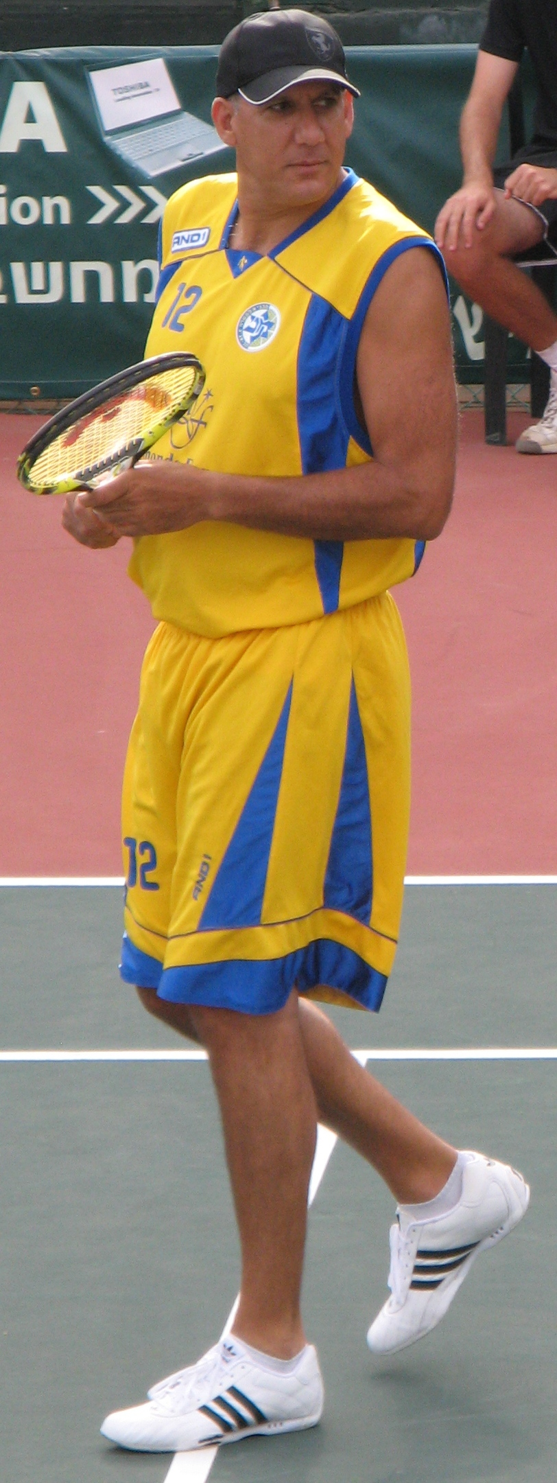 Former Israeli basketball player Doron Jamchi during a tennis match in memory of Ralf Klein. The match was held during the tennis tournament "Israel Open" for 2010.